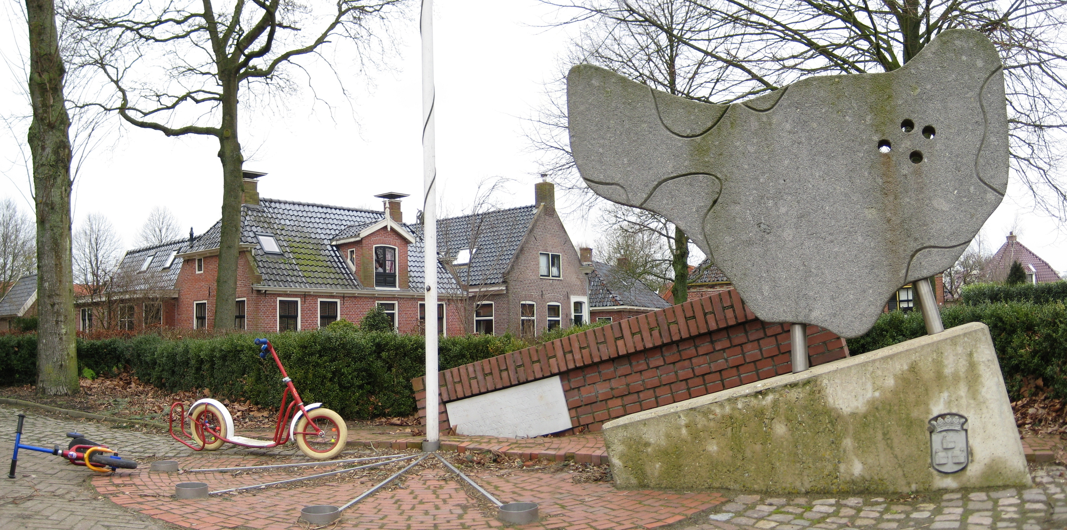 Second World War memorial in Oldehove, a village in the Dutch province of Groningen.